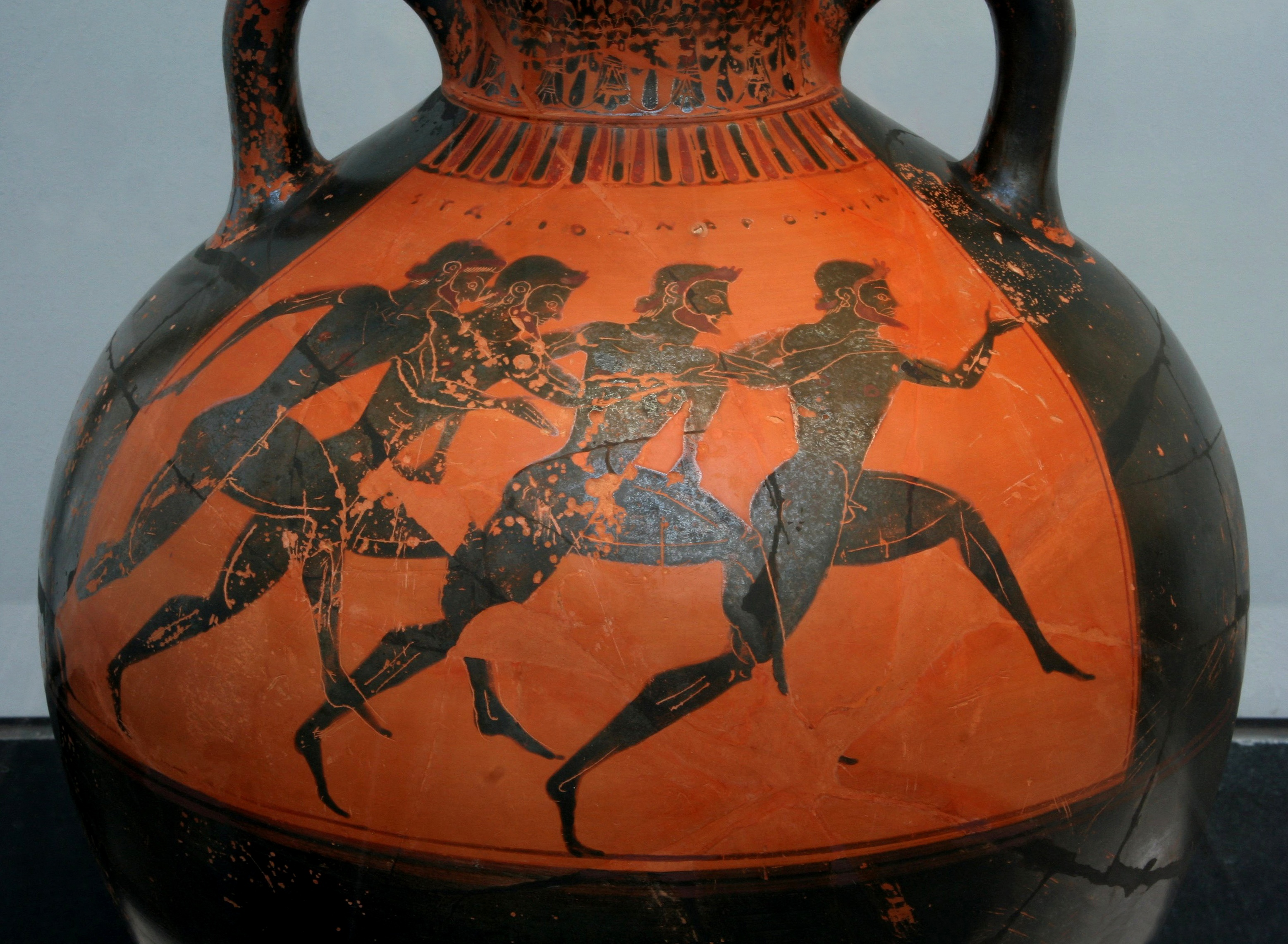 Greek vase with runners at the panathenaic games, ca. 530 BC. Artisans were considered part of the lower class in ancient Greece, although their work is highly valued today. It was held in Athens and was judged by judges.